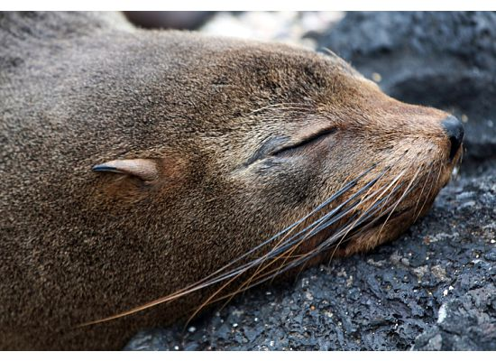 Galapagos fur seal on Isabela Island, Galapagos, Ecuador